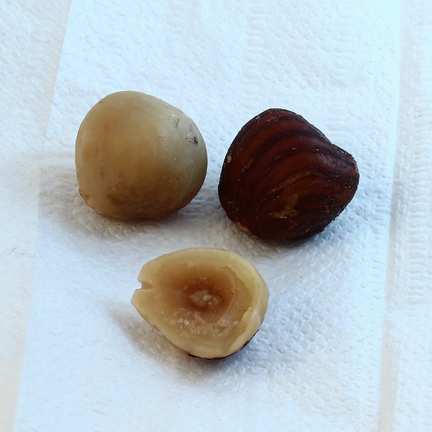 Hazelnut